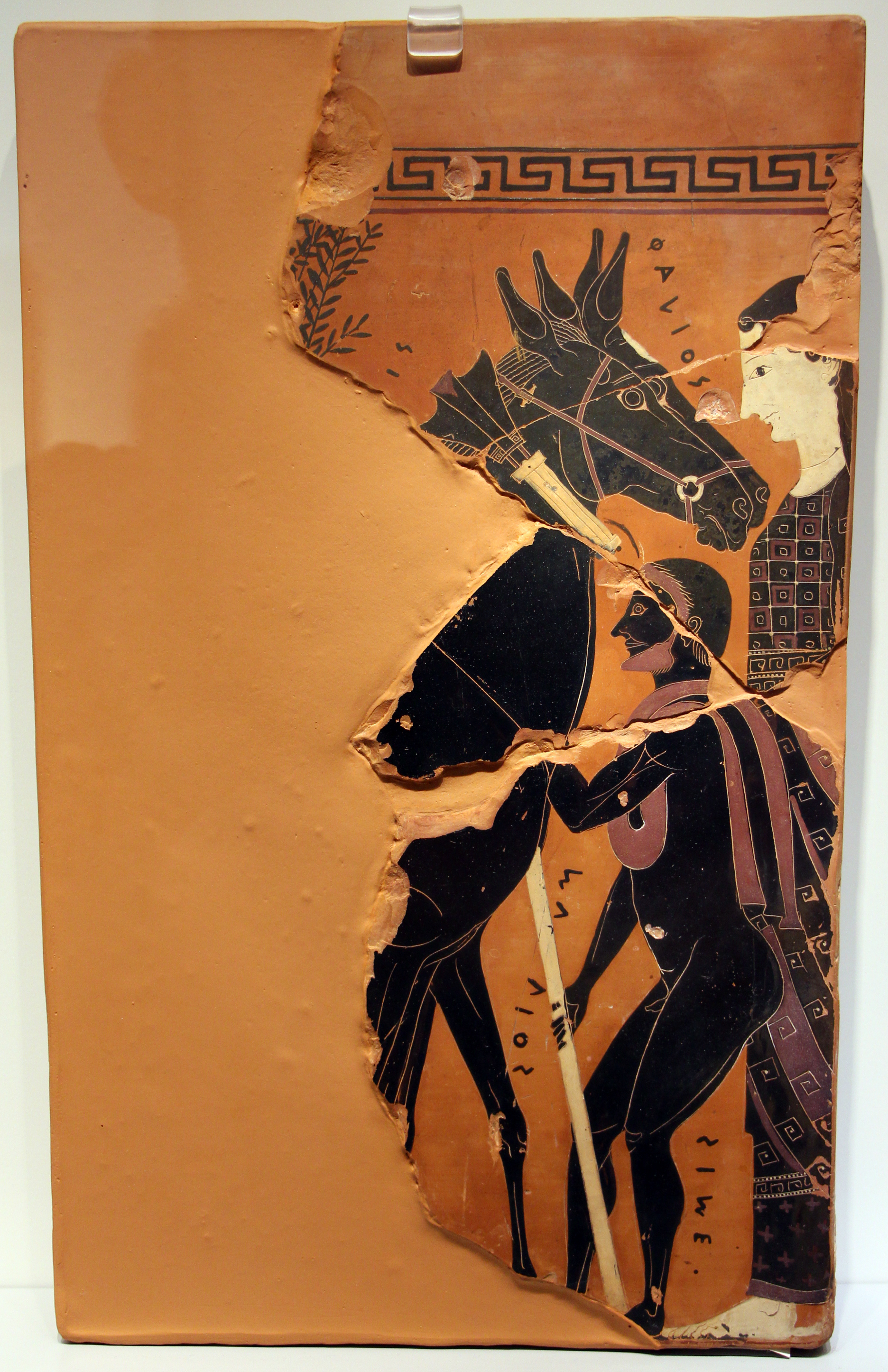 Ancient Greek pottery in the Antikensammlung Berlin